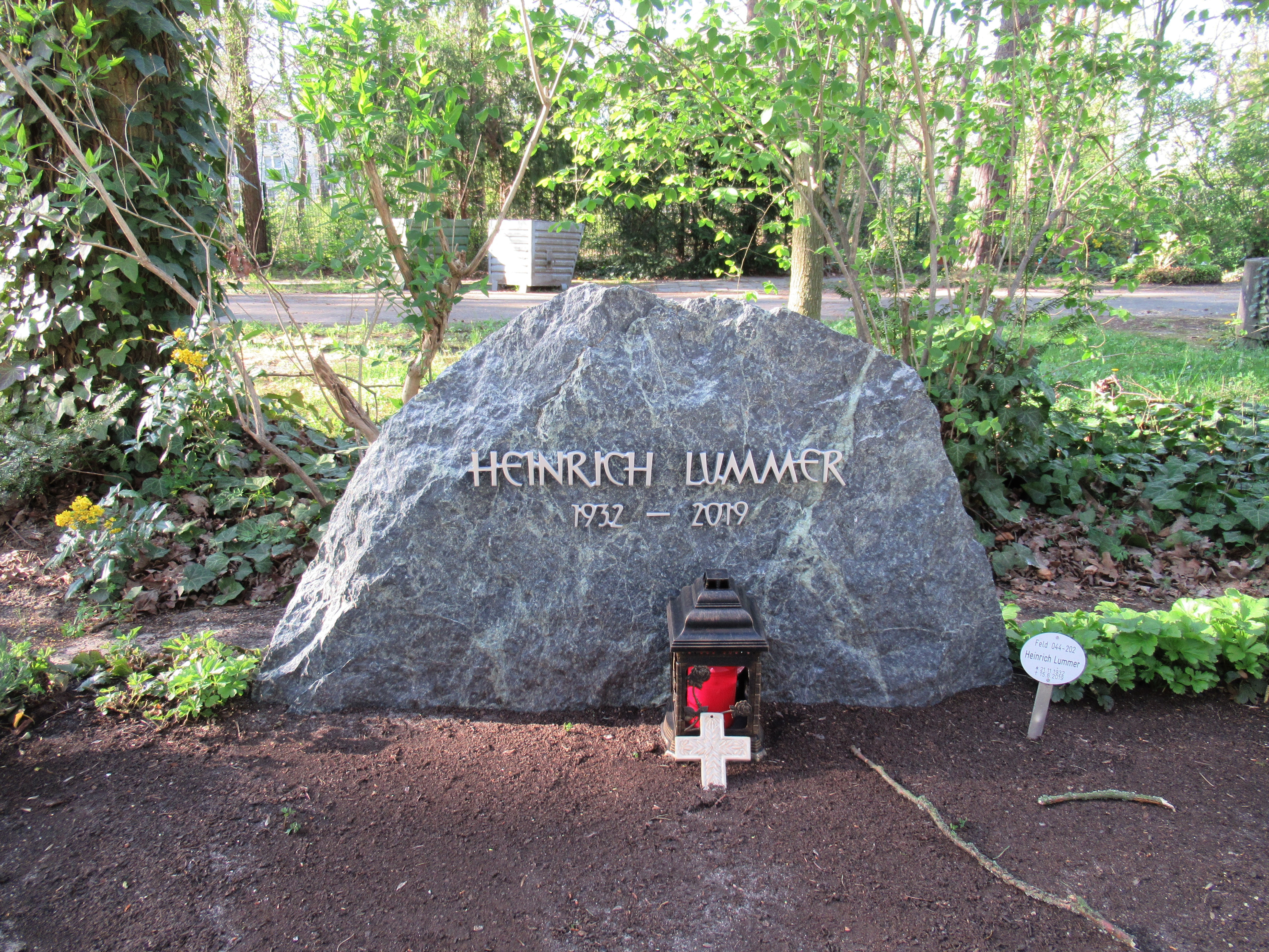 Grave of politician Heinrich Lummer at Waldfriedhof Zehlendorf in Berlin